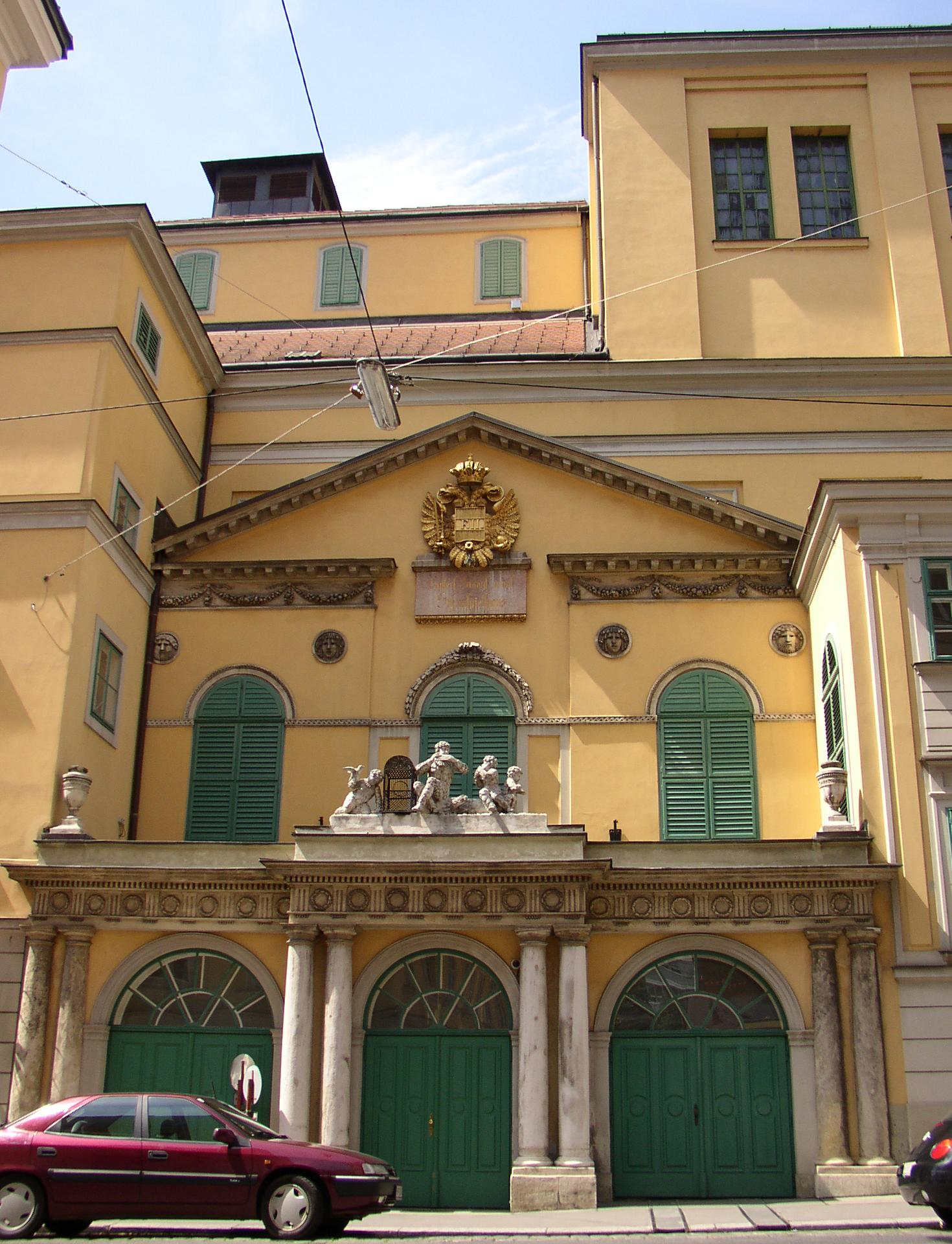 Papageno gate in Vienna, Austria